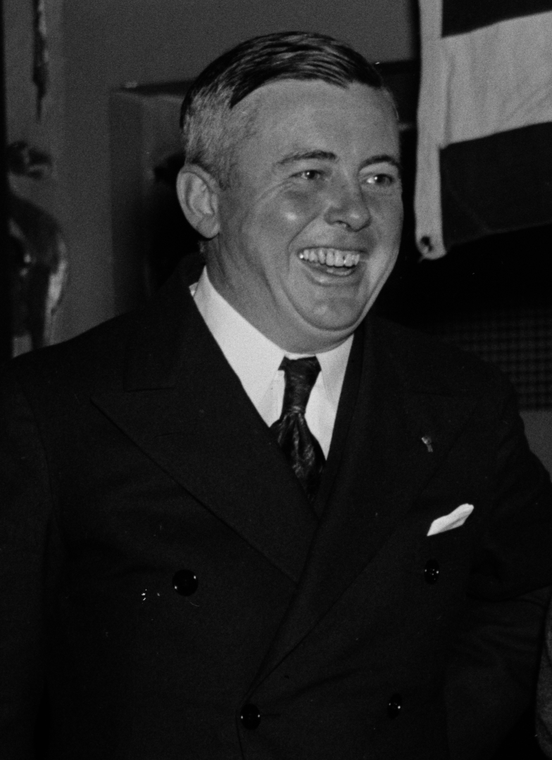 "A present for the mayor." Washington, D.C., Nov. 17. Mayor Joseph K. Carson of Portland, Ore. today presented a chair to Mayor Fiorello La Guardia, of New York City. Mayor Carson presented the chair with the hope that Mayor La Guardia would take a rest after having tough time at the Annual Conference of Mayors, at which he was re-elected president of the body, 11/17/37